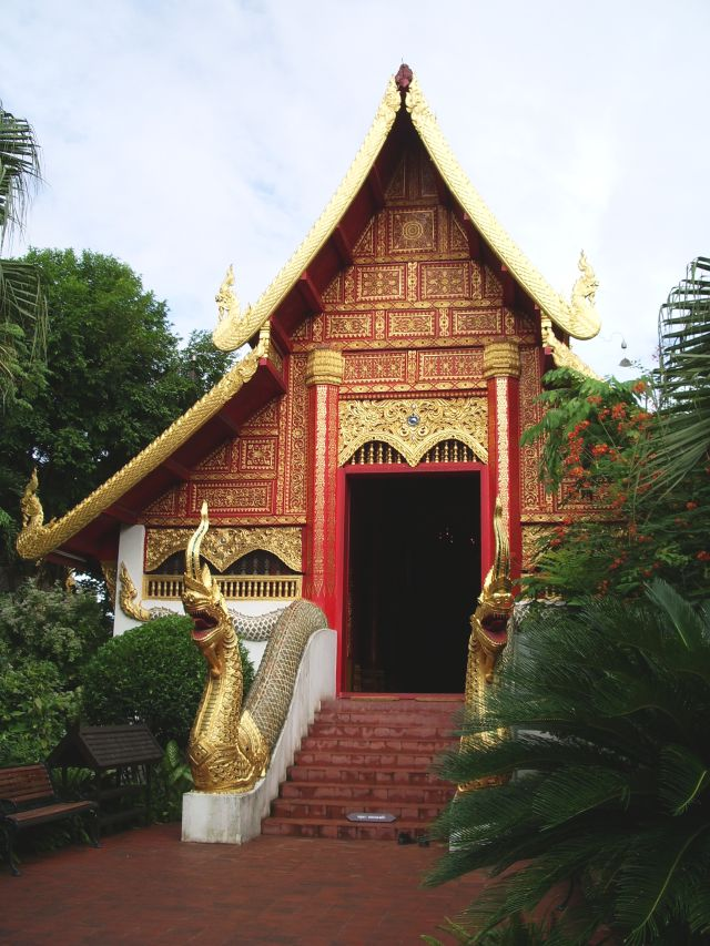 Wat Phra Kaeo in Chiang Rai, Thailand. Photo taken by (WT-shared) Robert Biuk-Aghai on 9 Jul 2006.